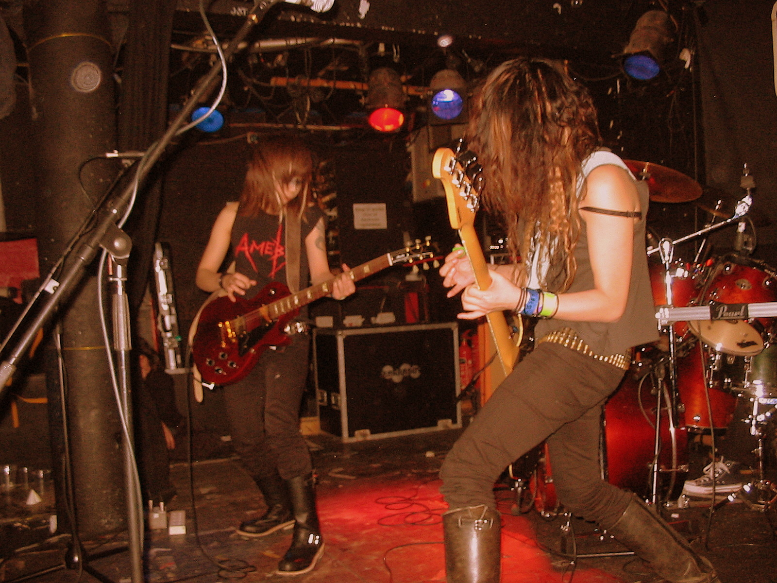 Gallhammer live in Glasgow